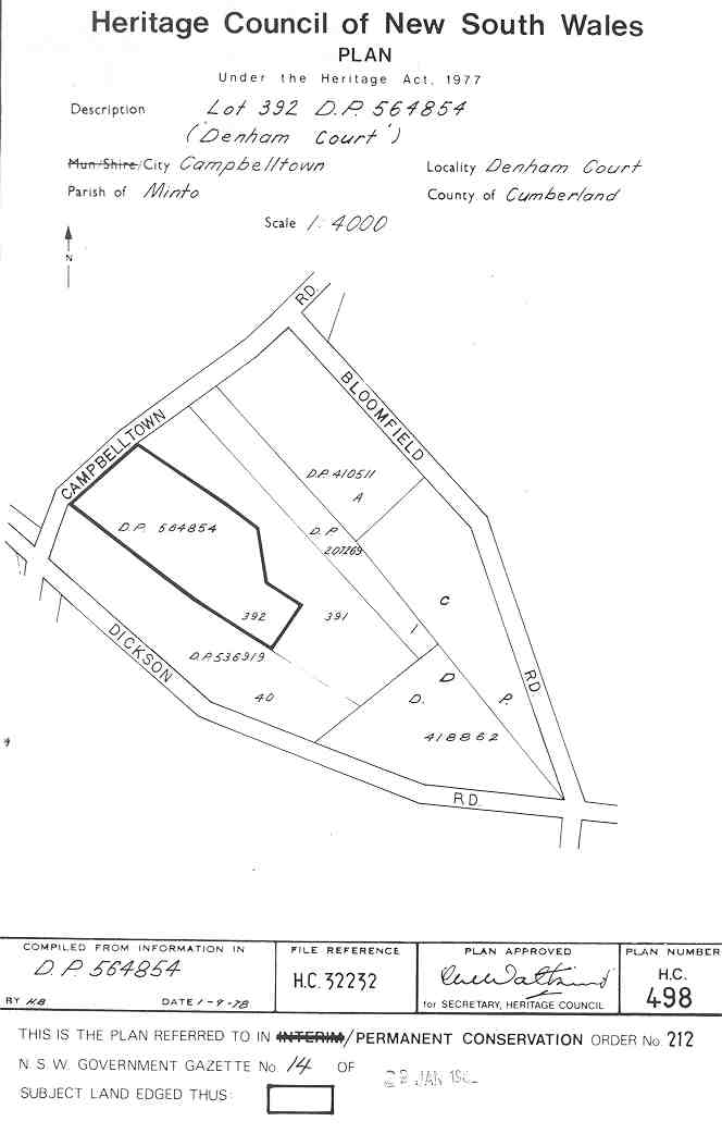 Denham Court (homestead): PCO Plan Number 212